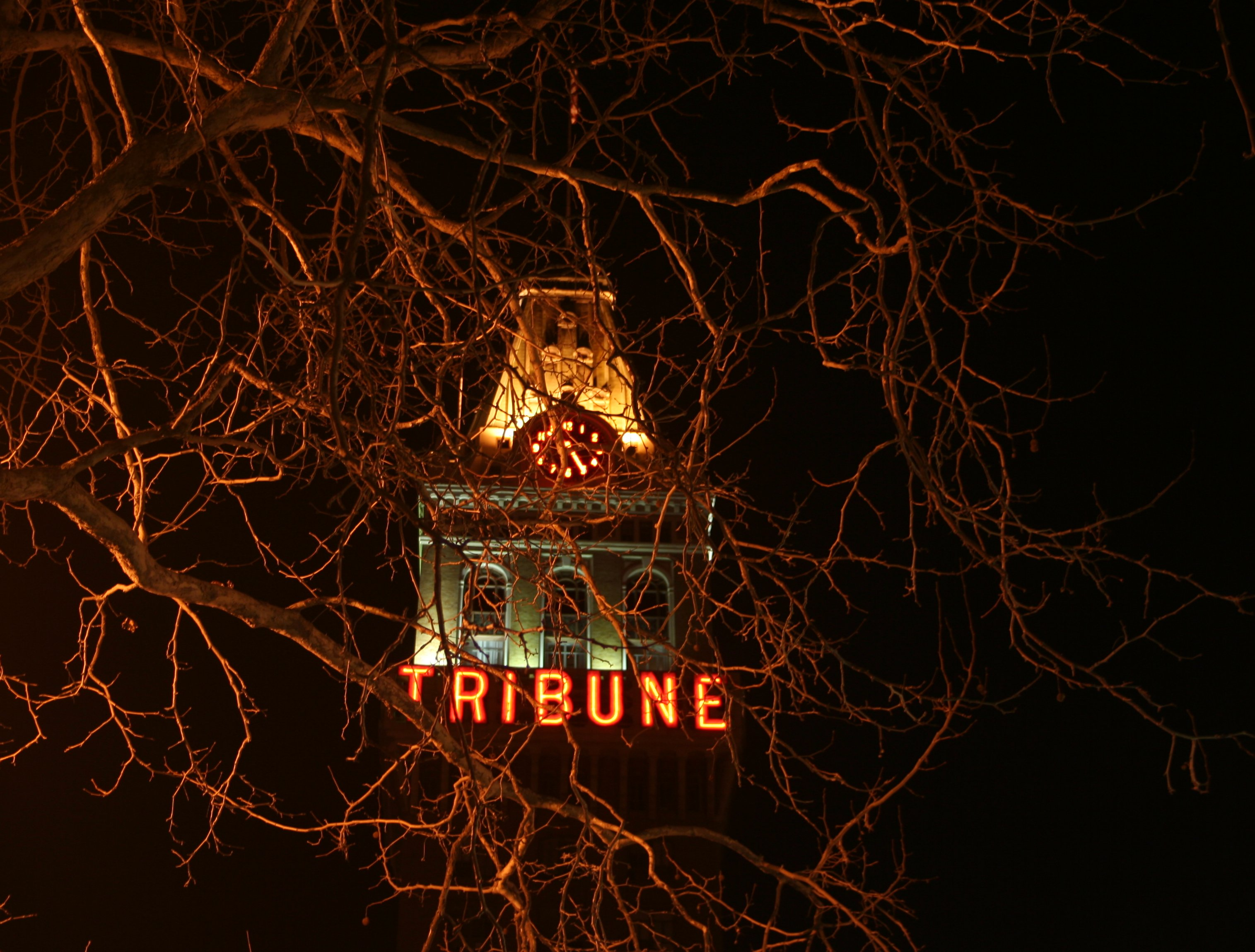 Photographed by and copyright of (c) David Corby (User:Miskatonic, uploader) 2006 The Tribune Building. Oakland California. Taken from the City Center complex.